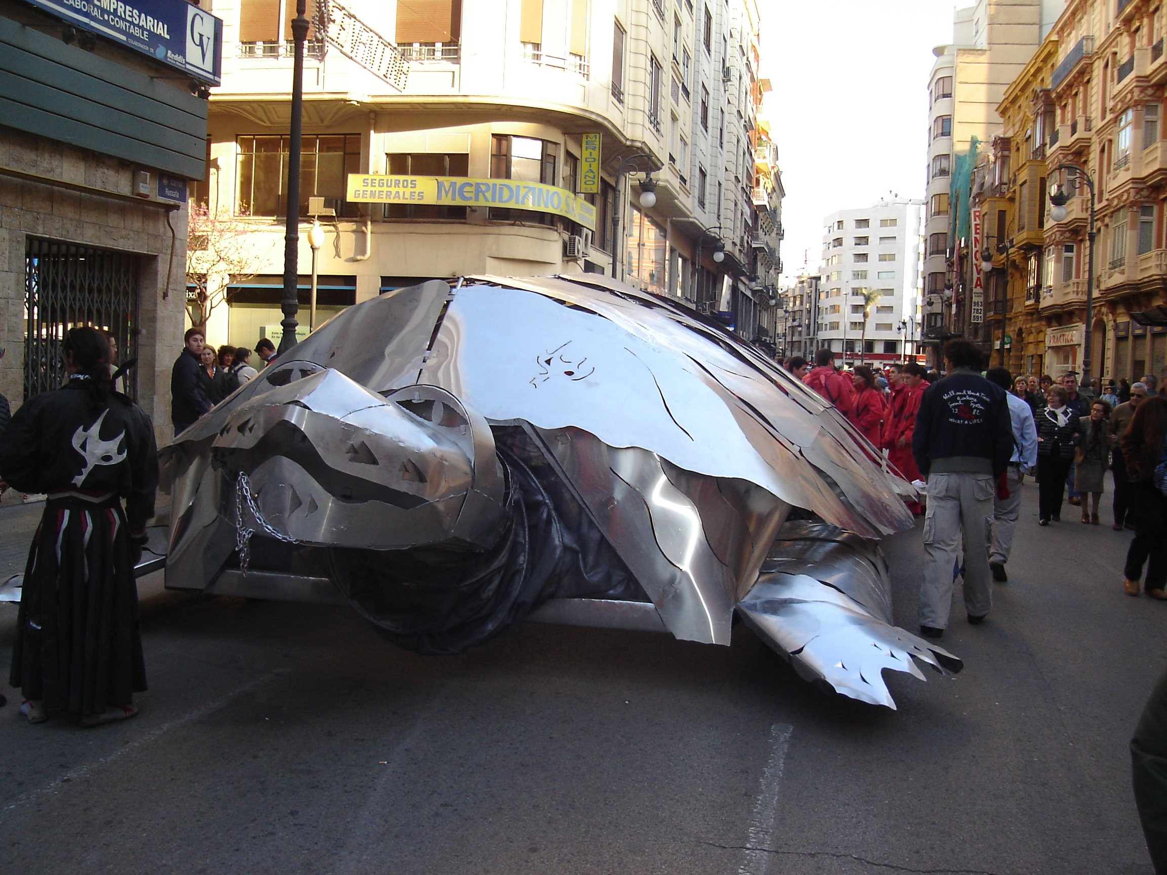 Massalfassar's taratuga